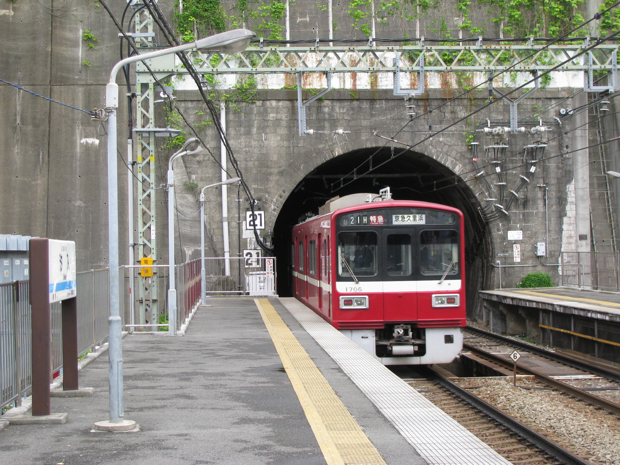 A train from Shioiri Station Platform 1, Keikyū Main Line, in Yokosuka, Kanagawa, Japan.